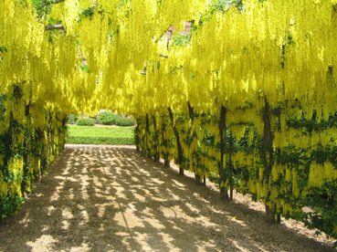 Laburnum arbour, a pergola with Laburnum × watereri, in Temple Newsam House gardens.